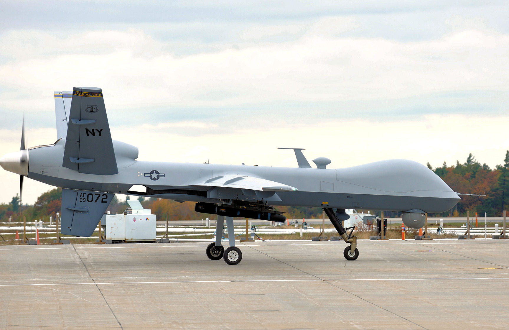 A MQ-9 Reaper from the 174th Fighter Wing, New York Air National Guard, taxis to the runway at Wheeler-Sack Army Airfield, Ft. Drum, New York on 18 October, 2011 in preparation for its first flight. The 174th FW recently received approval from the Federal Aviation Administration (FAA) to begin flying training missions in airspace around Ft. Drum. (US Air Force Photo by Staff Sgt. Ricky Best)